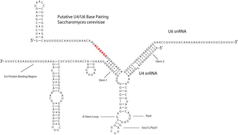 Putative Yeast U4/U6 model